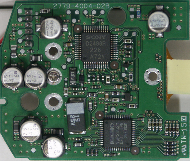 Minolta dimage 7hi ccd pcb